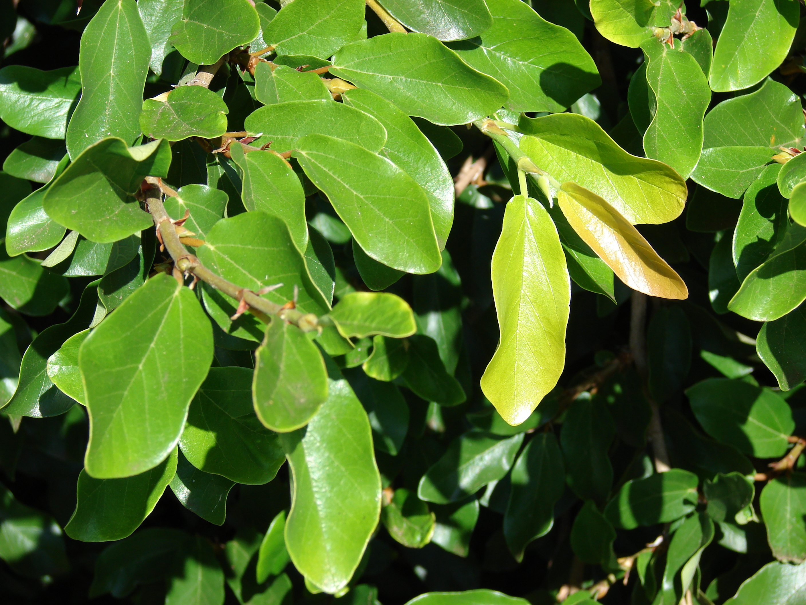 Ficus pumila (leaves). Location: Maui, Spreckelsville